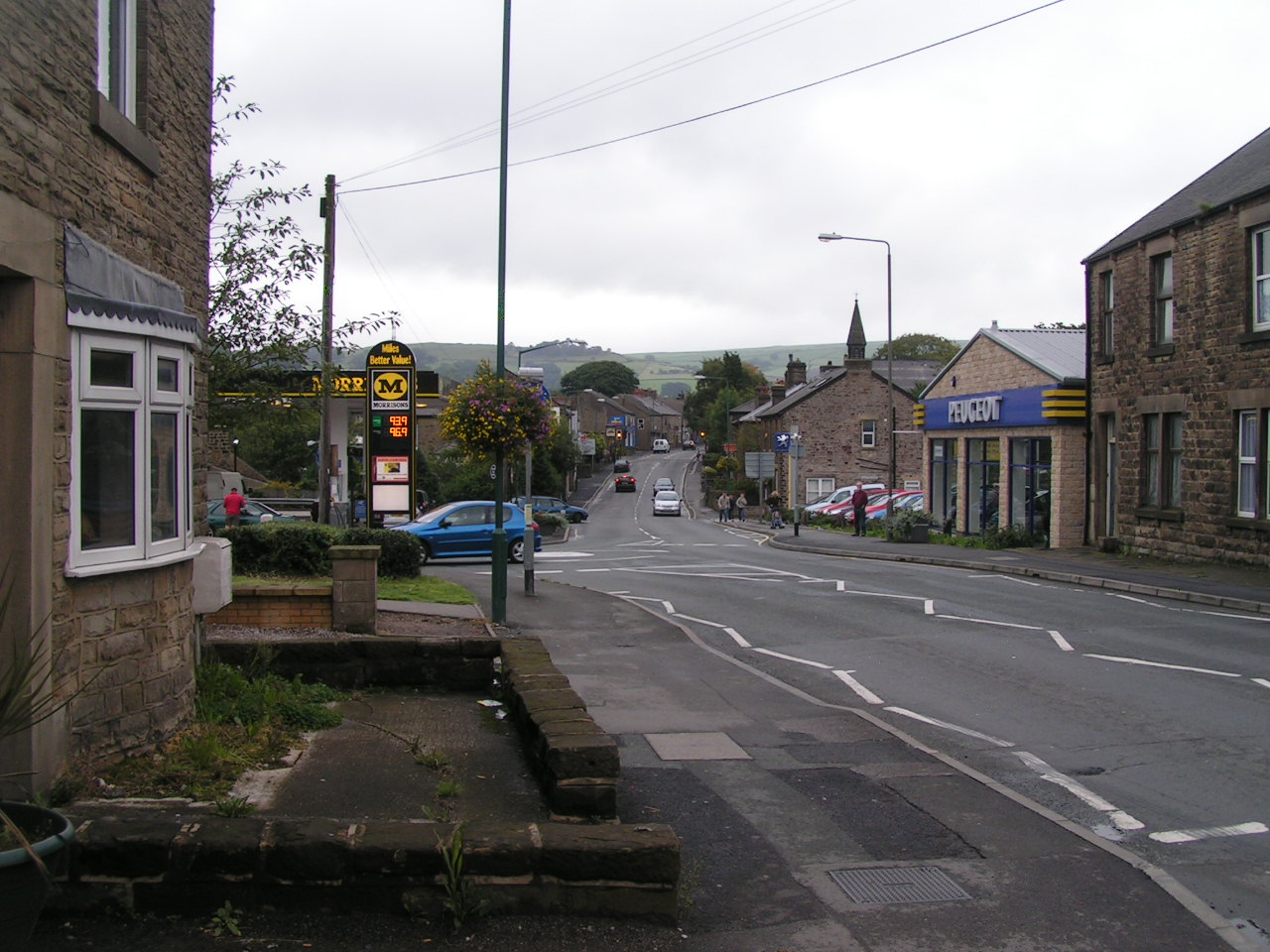 Market Street, Chapel-en-le-Frith B5470 looking east (viewpoint approx. SK060808) with spire of Methodist Church to right